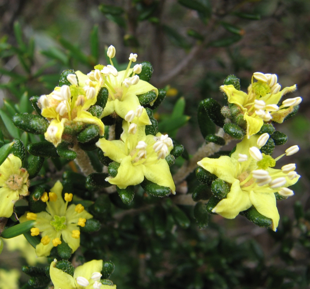 Asterolasia trymalioides, Baw Baw National Park, Victoria, Australia